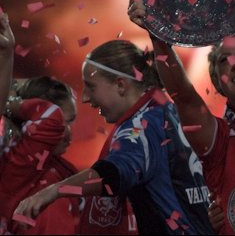 FC Twente women's squad champions 2010/11